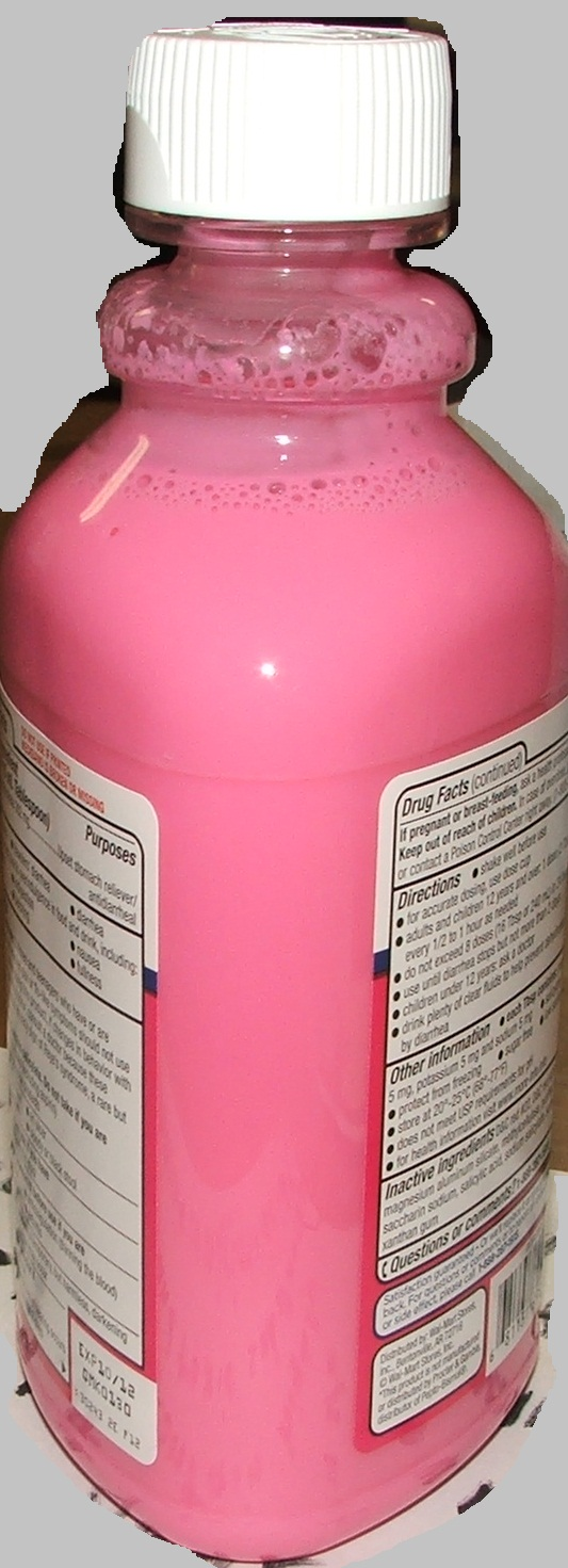 A generic version of Pepto-Bismol, back view.